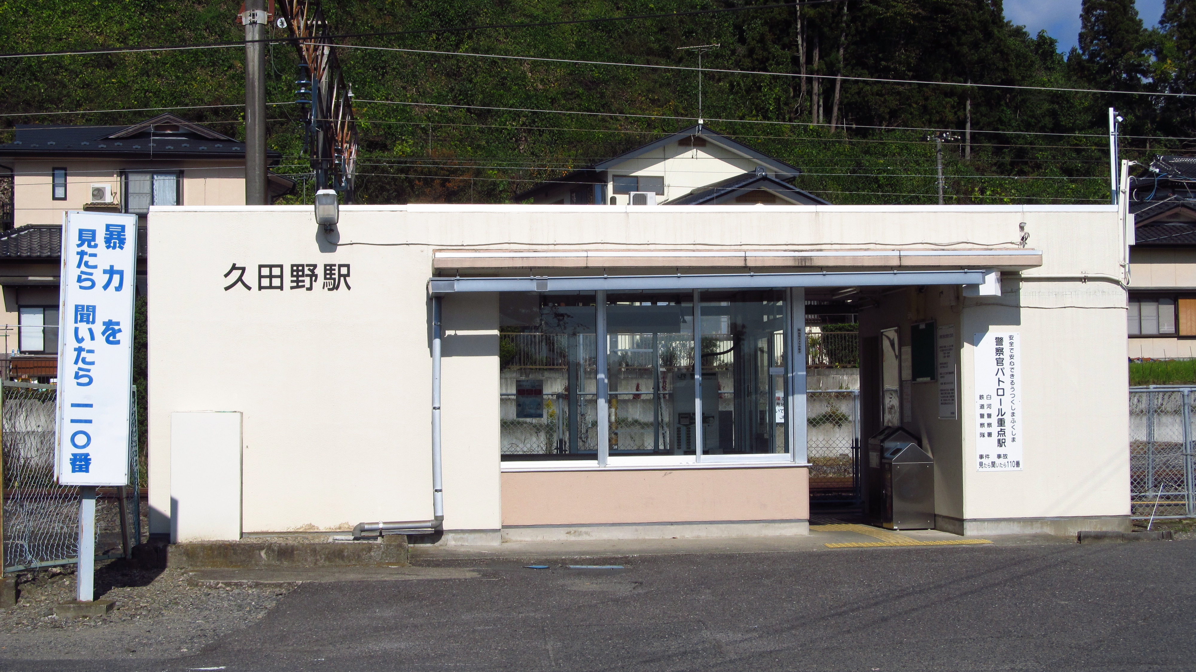 The entrance to Kutano Station on the Tōhoku Main Line in Shirakawa city, Fukushima prefecture, Japan